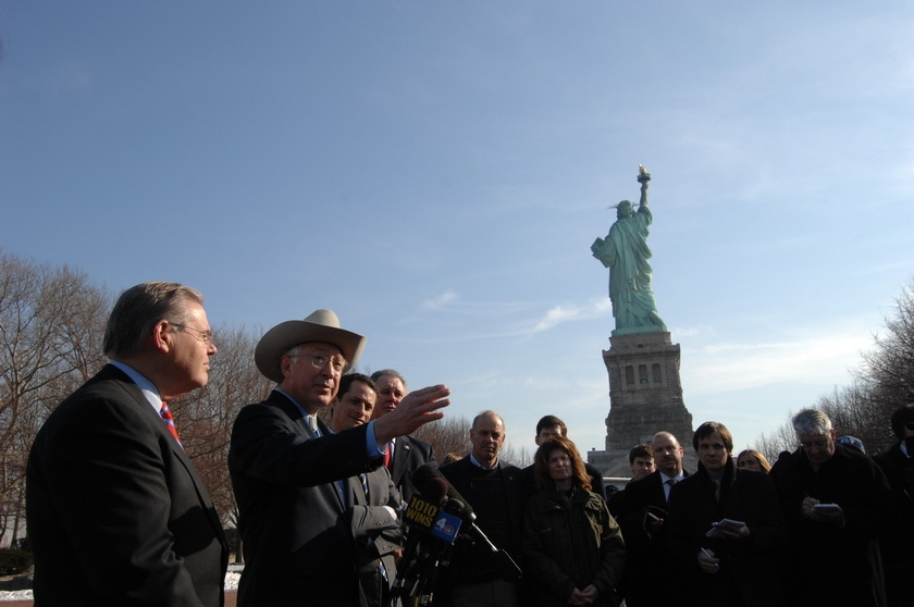 Secretary of the Interior Ken Salazar inspects Statue of Liberty for visitor access and safety concerns. . Accompaning the Secretary on his visit were U.S. Sen. Robert Menendez and Reps. Anthony D. Weiner (NY) and Albio Sires(NY).